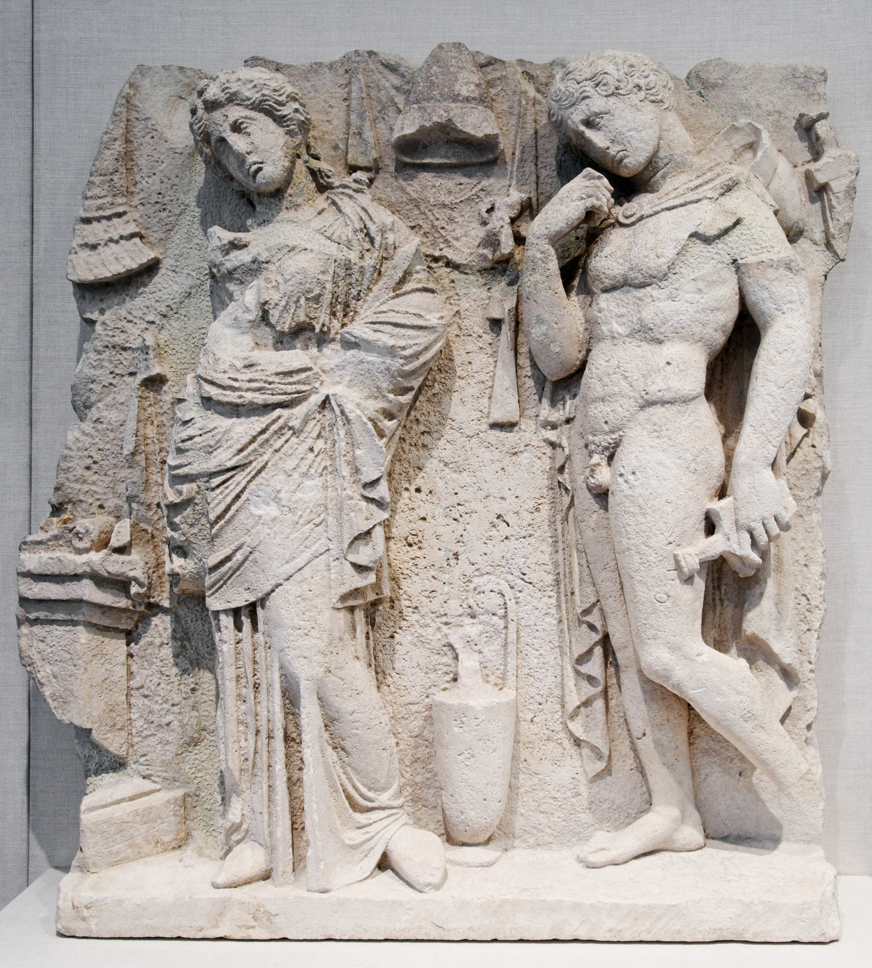 Young warrior and woman standing by an altar. Tarentine funerary relief.